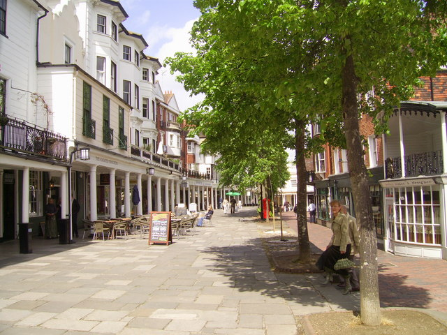 The Pantiles, Tunbridge Wells, Kent